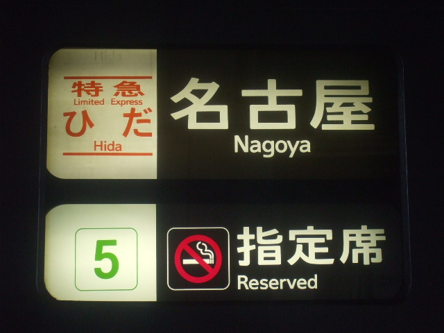 JR Tokai Limited Express Hida Sokumen Houkou-maku at Mino-ota Station